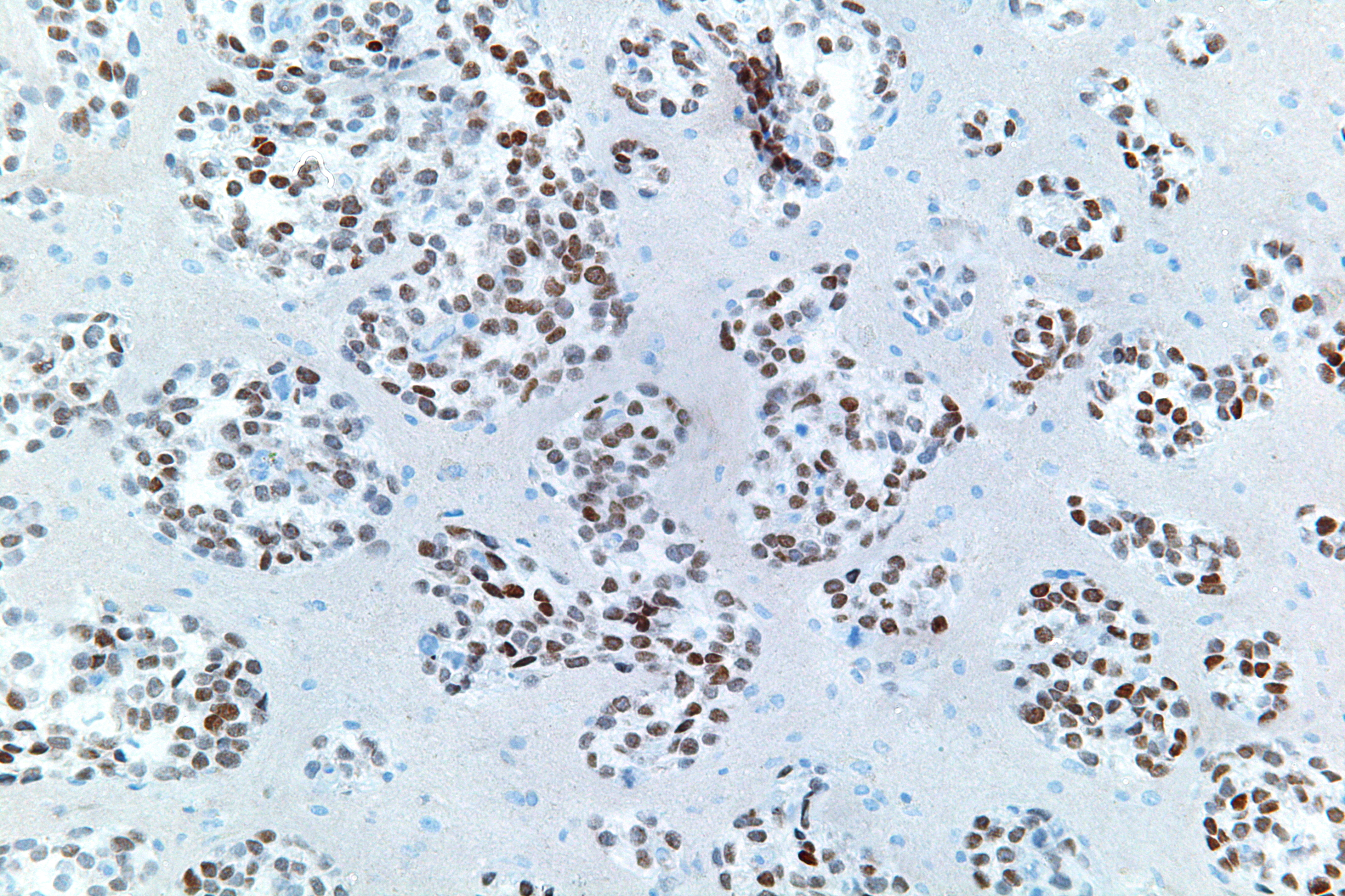 High magnification micrograph of a primary lung adenocarcinoma showing nuclear staining with a TTF-1 immunostain.